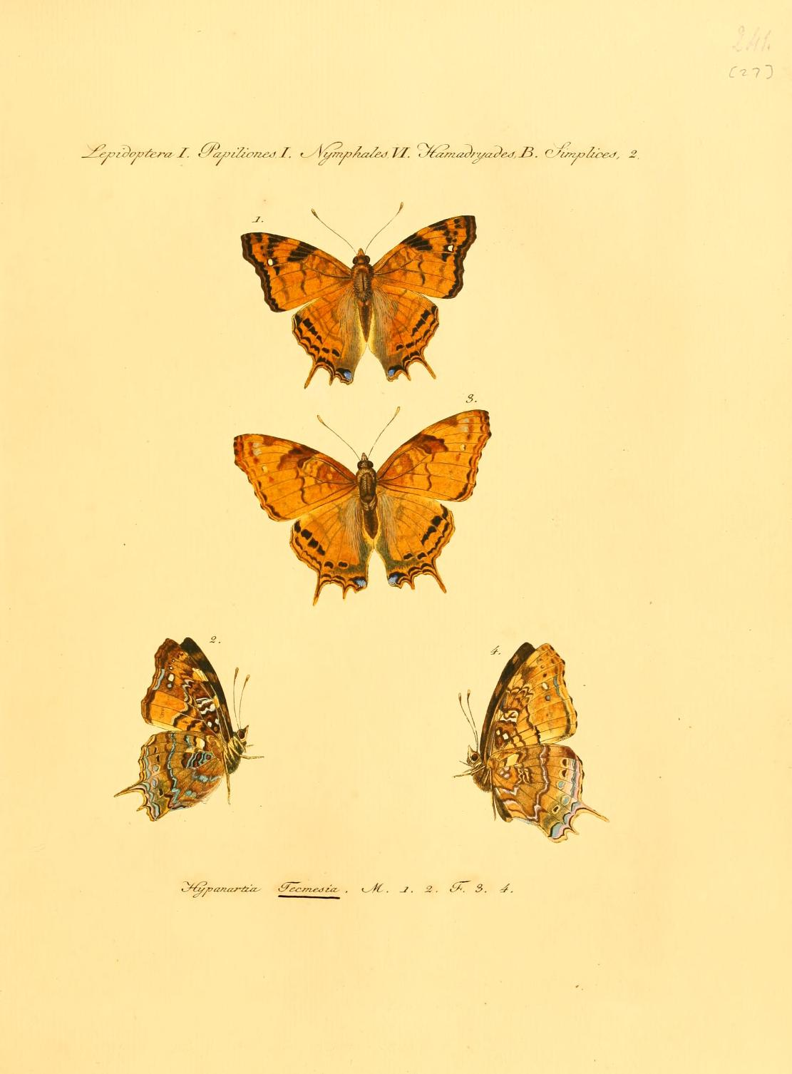 Jacob Hübner Sammlung exotischer Schmetterlinge Vol. 2 ([1819] - [1827] Plate 27 Hypanartia tecmesia Hübner, [1823] synonym for Hypanartia paullus (Fabricius, 1793)